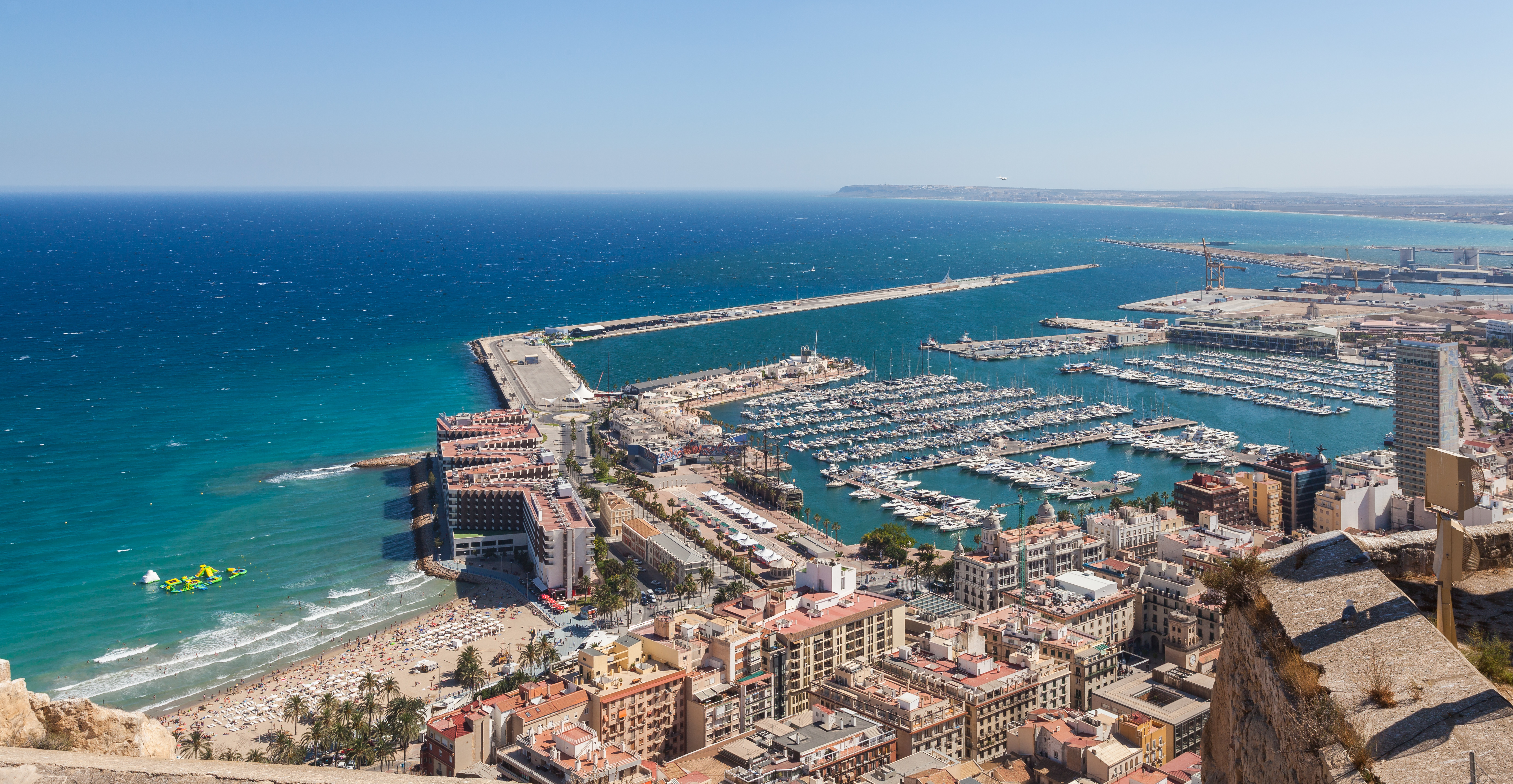 View of Alicante, Spain